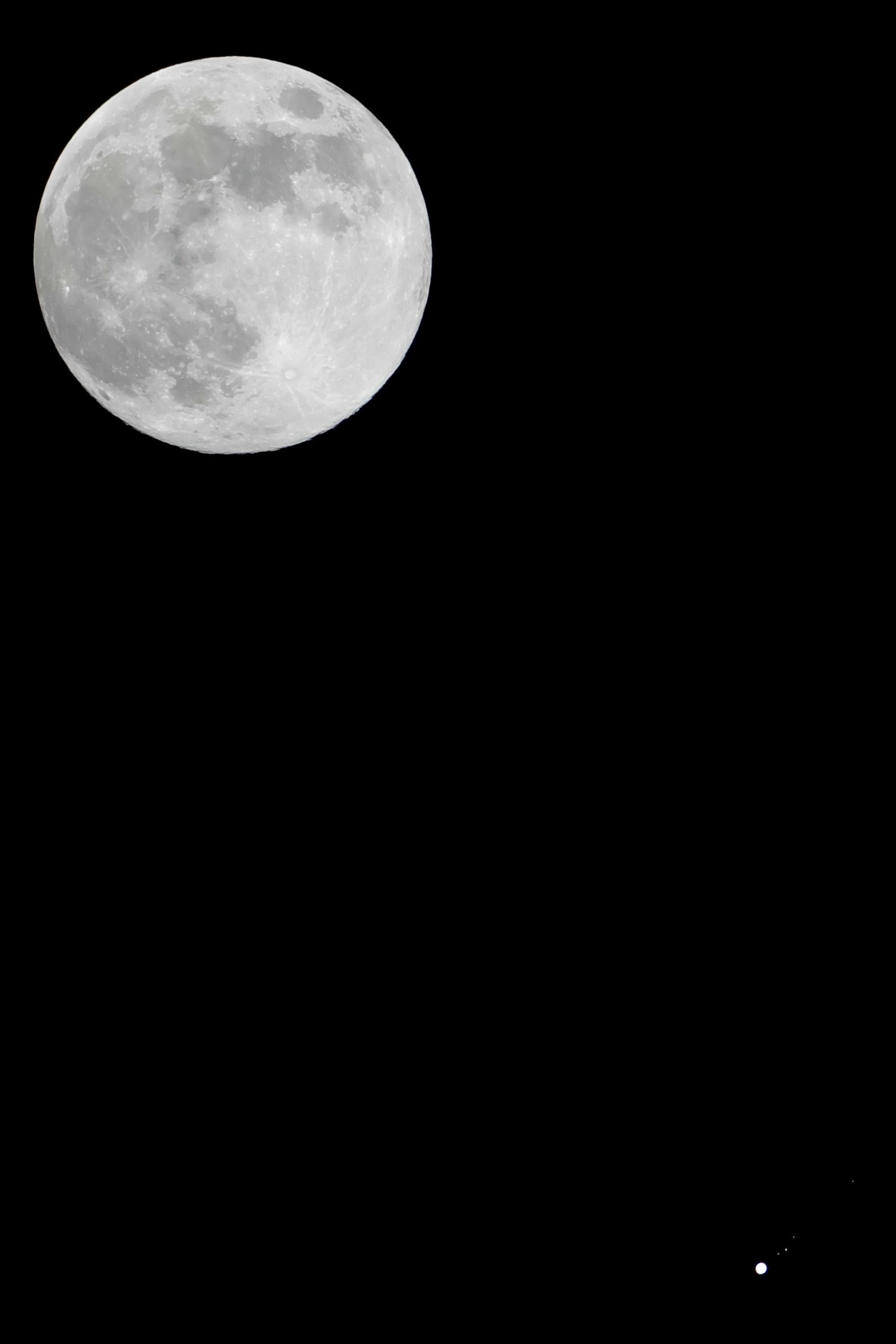 This HDR image shows the apparent size of Jupiter with its four Galilean moons – Io, Ganymede, Europa, and Callisto (near maximum elongation), respectively – compared to that of the full Moon. The photo was taken when Jupiter and the Moon were around conjunction on 10 April 2017, in the constellation Virgo. The angular diameter of the Moon's disk is about 30' (arcminutes), the angular radius of Callisto's orbit is about 10', and the angular diameter of Jupiter's disk is about 3/4'. The original image with an aspect ratio of 4:3 was quadratically cropped to 3200 × 3200 pixels, and the diagonal angle of view of the image is 3.3°. The resolution limit of the human eye is at about 1' (or 60"), the horizontal respectively vertical angular size of the quadratic pixels is 2.6'.